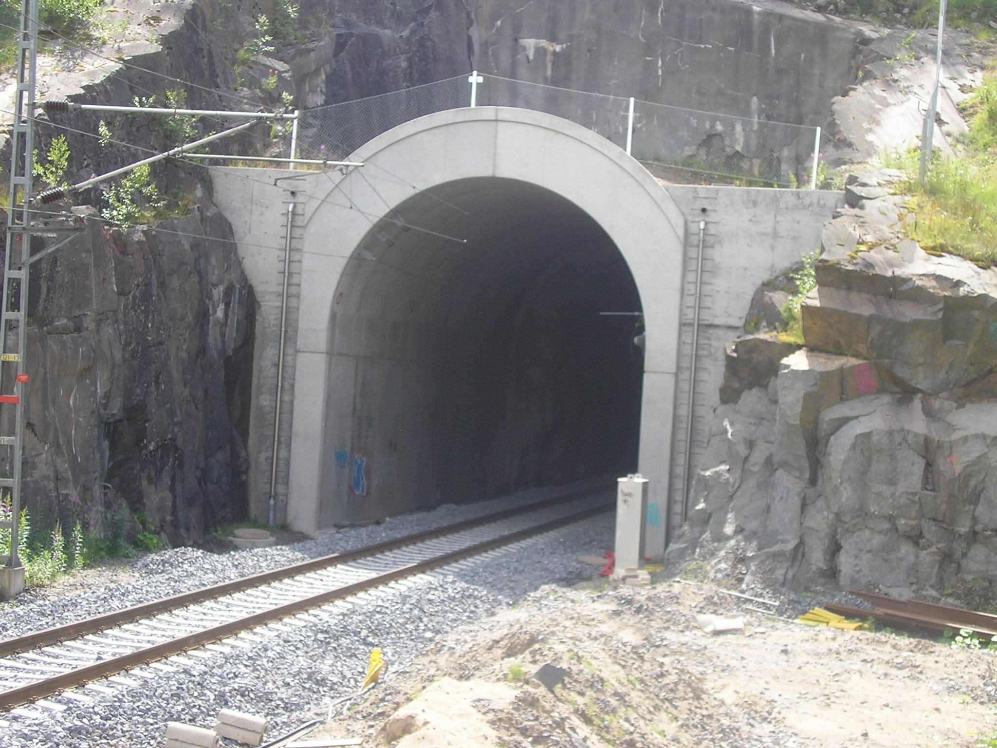 Northern entrance of Lautakkomäki railway tunnel on the Orivesi–Jyväskylä railway line in Muurame, Finland.